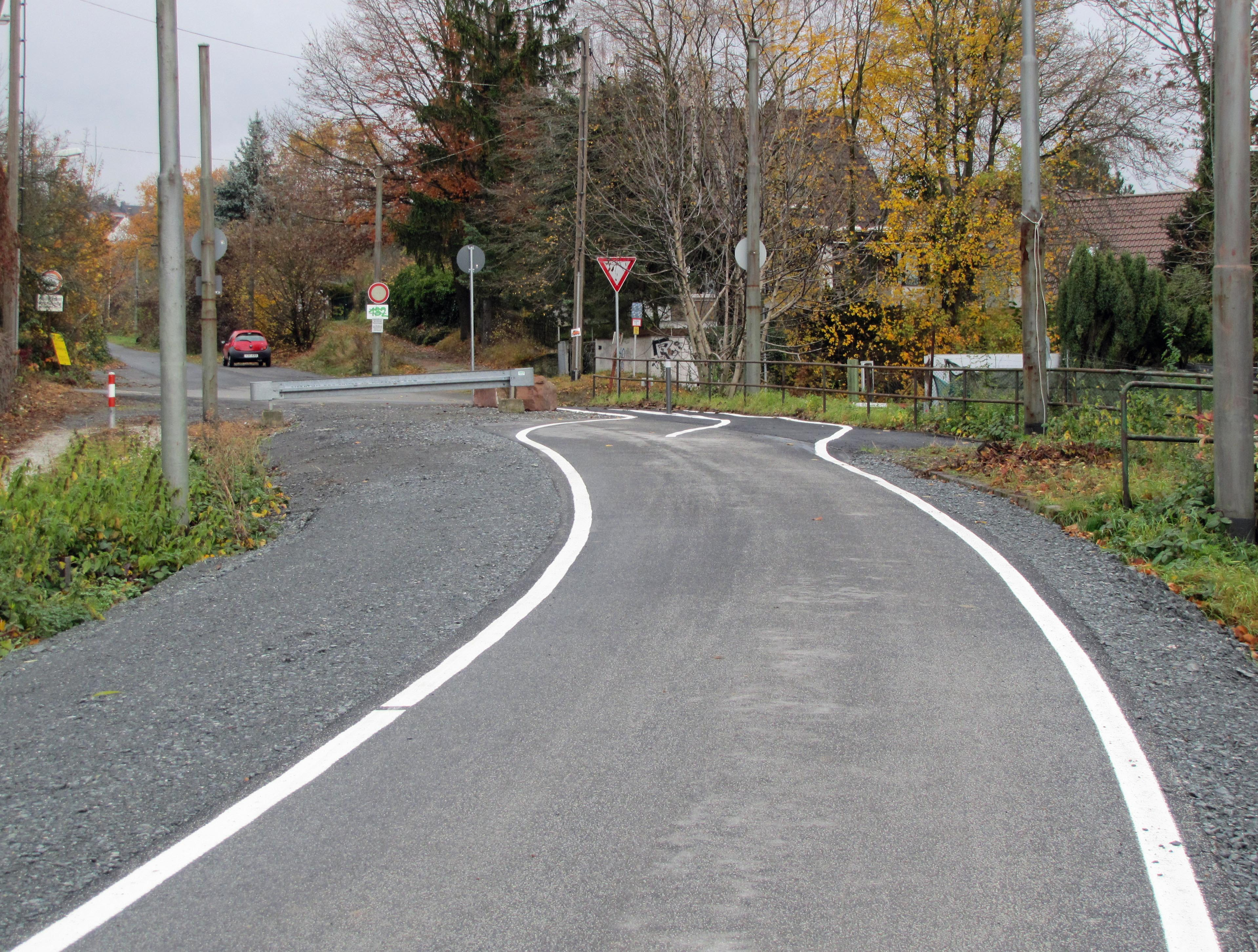 Abandoned tram track to Frankfurt-Bergen, conversion as bike lane and footpath, crossing "Wilhelmshoeher Strasse", Frankfurt-Seckbach, Germany.